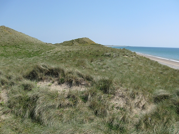 Ballteige Burrow The highest dune (14m) at Ballyteige Beach.